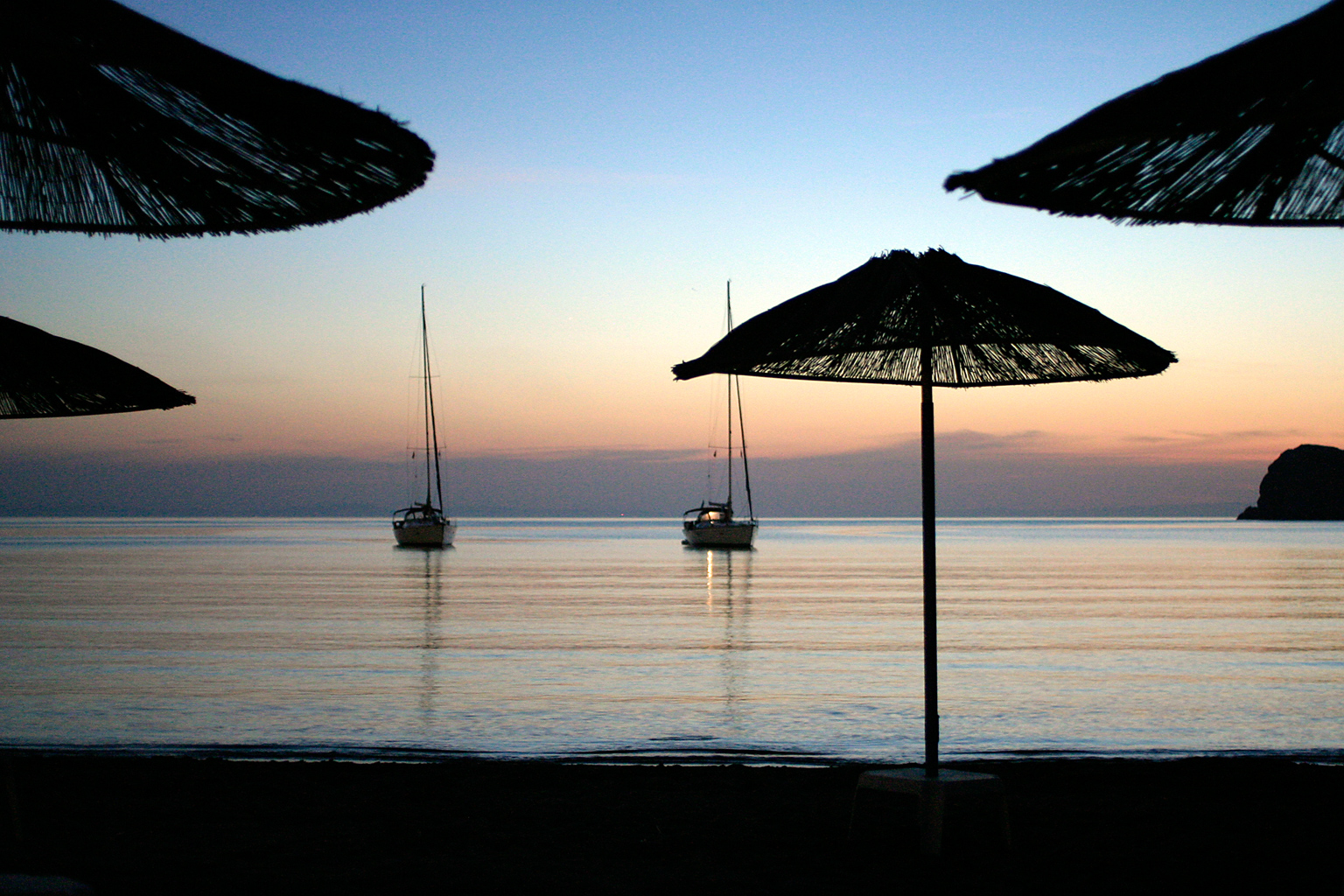 Galissas Beach, Syros at dusk.